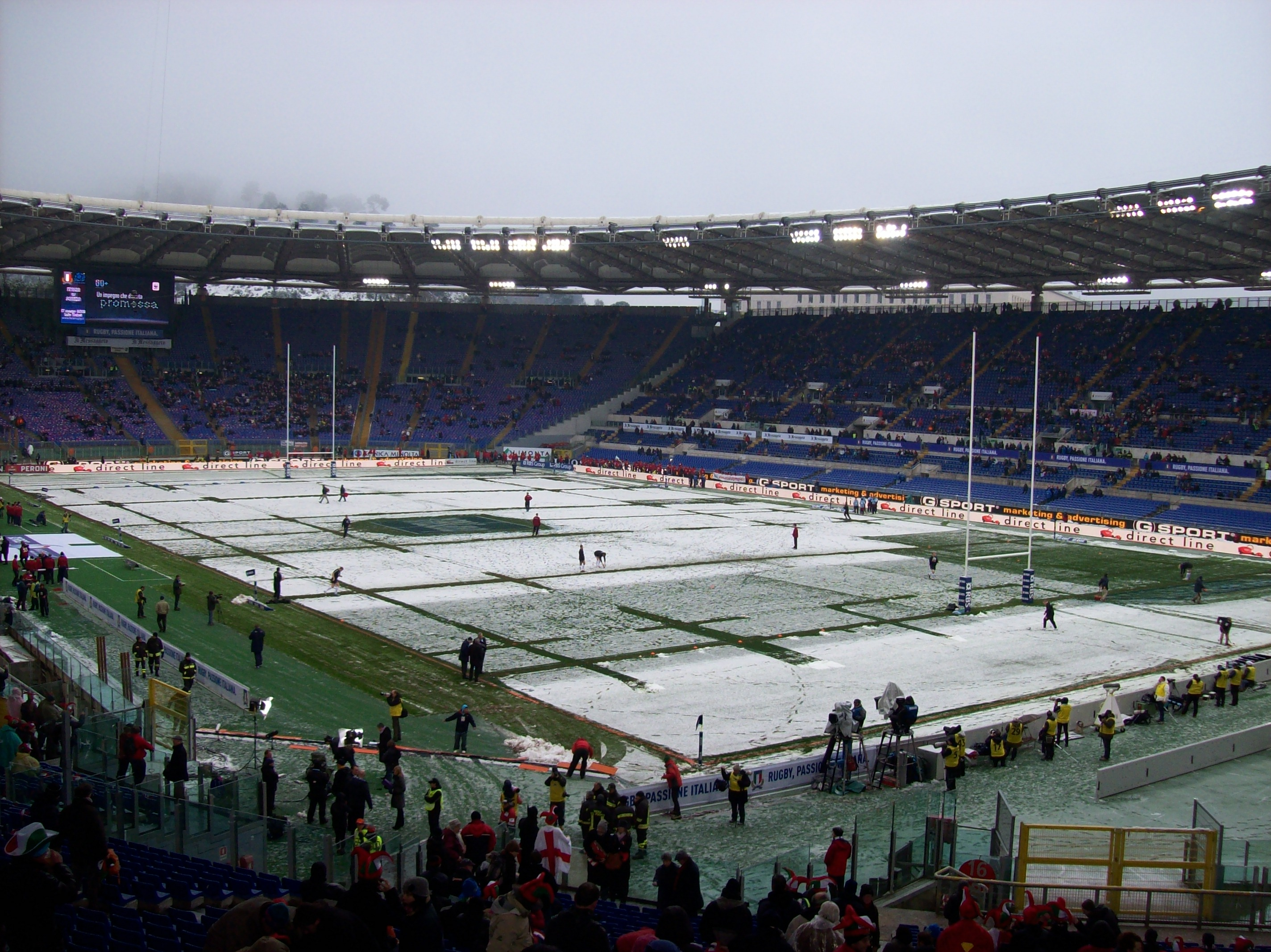 Pre-match in a snowy Olympic Stadium in Rome at the 2012 Six Nations Championship